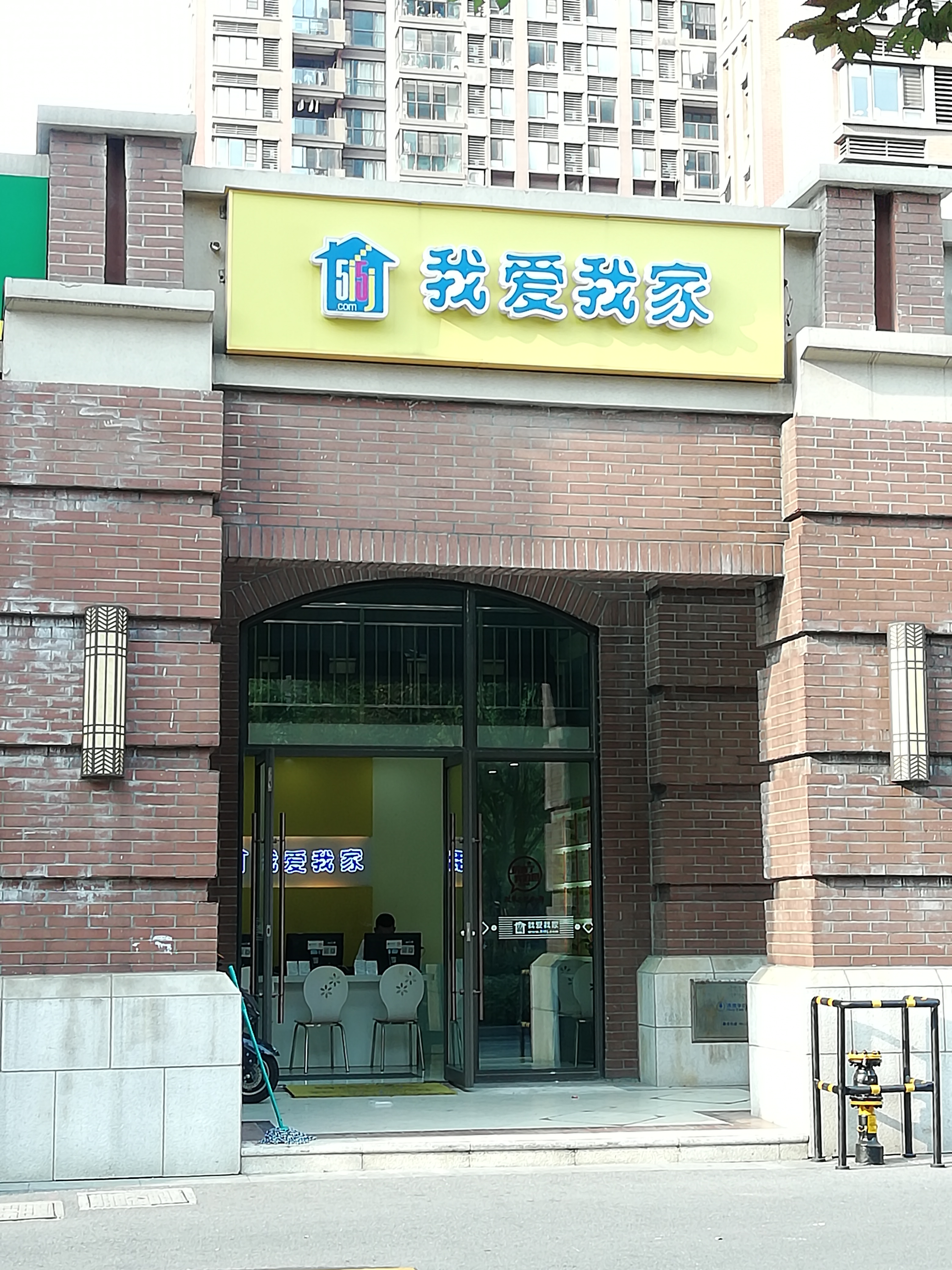 A 515j store in Suzhou 中文（中国大陆）: 我爱我家房产中介位于苏州的门店